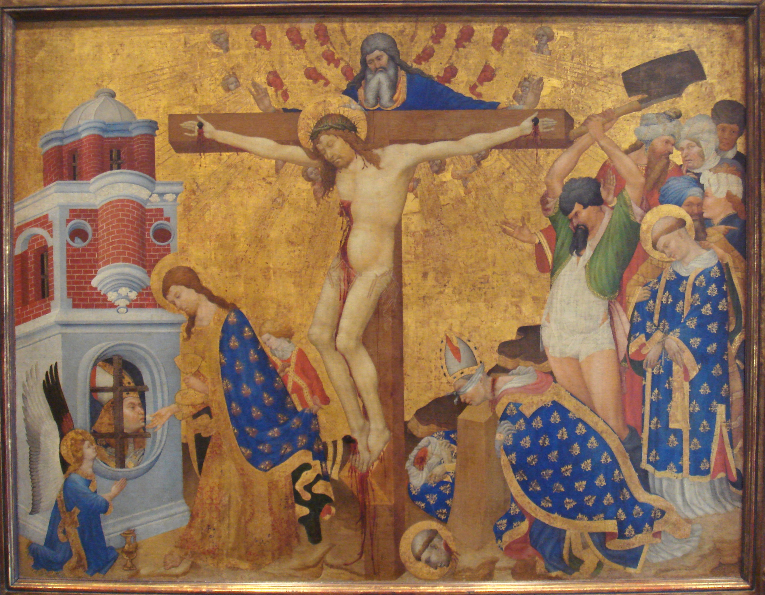 Completed by 1416 for the Carthusian monastery of Champol, Burgundy, France.